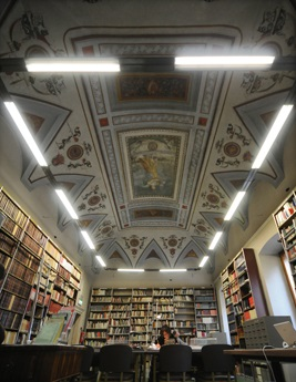 Augusta Library of Perugia: Conestabile room